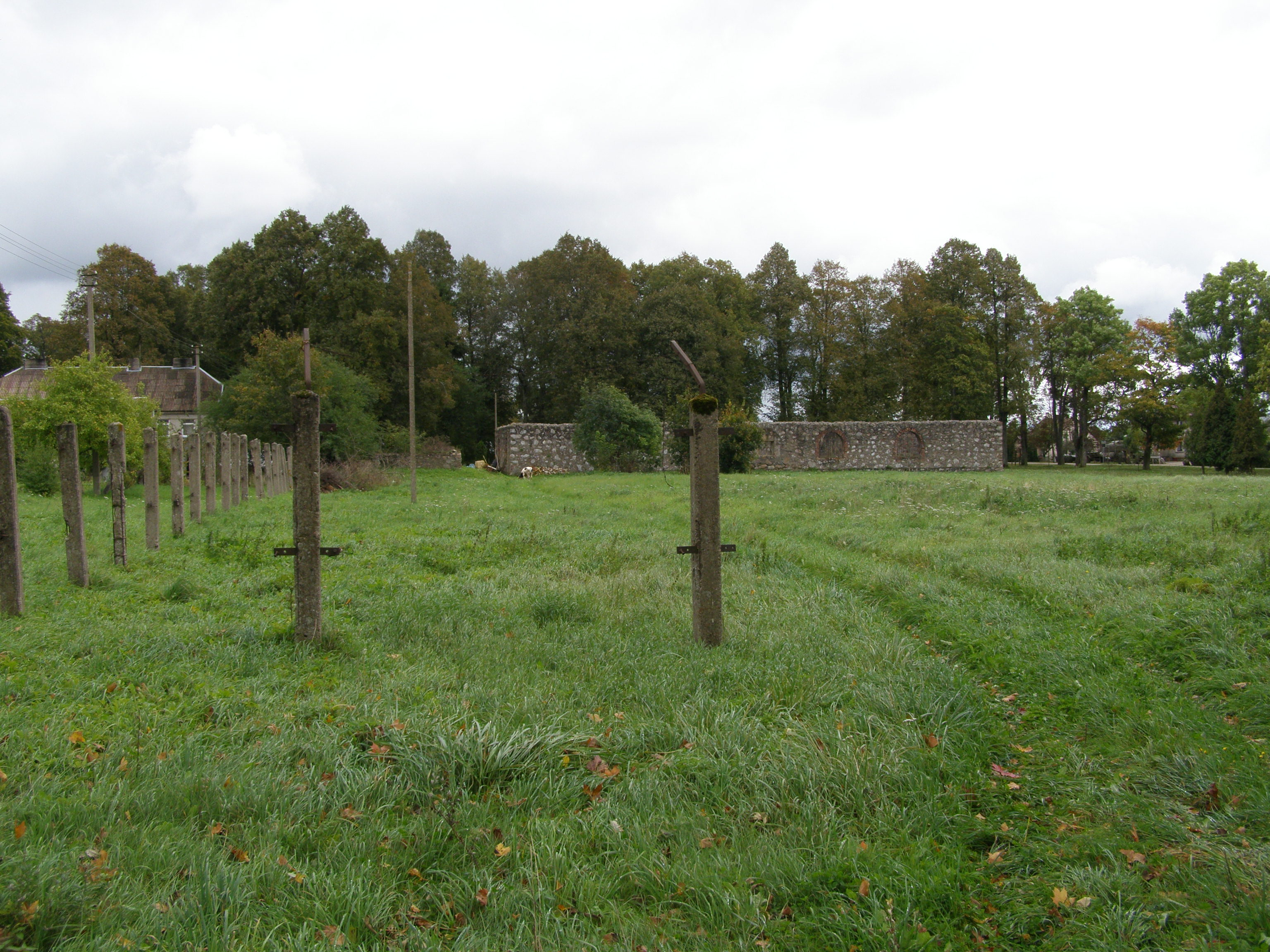 Dimitravas, Kretinga district, LithuaniaLietuvių: Dimitravo priverčiamojo darbo įstaigos kalėjimo zona, Kretingos rajonas, Lietuva